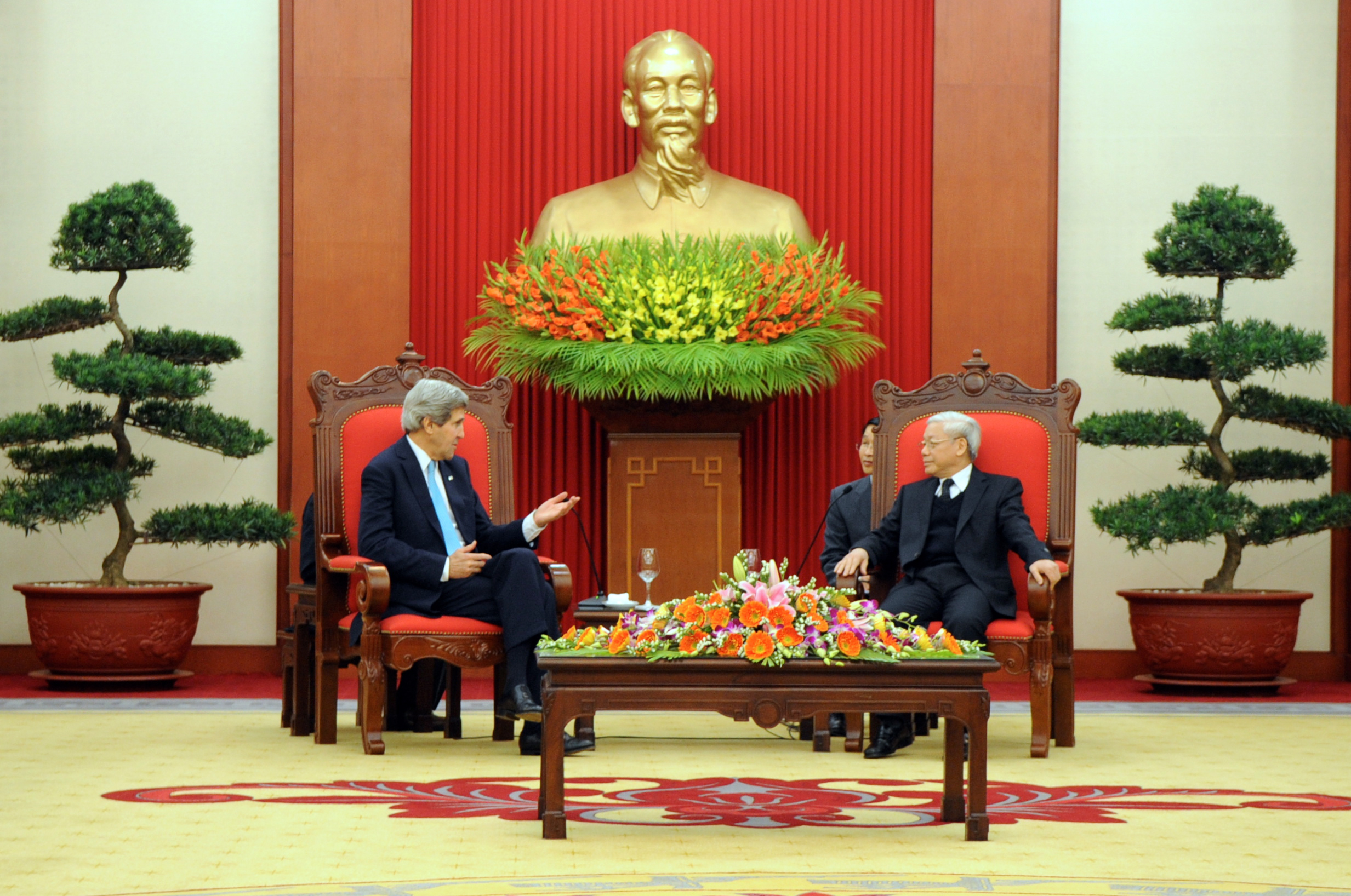 U.S. Secretary of State John Kerry, sitting beneath a bust of Ho Chi Minh, addresses Vietnamese Communist Party General Secretary Nguyen Phu Trong at the outset of a meeting in Hanoi, Vietnam, on December 16, 2013. [State Department photo/ Public Domain]